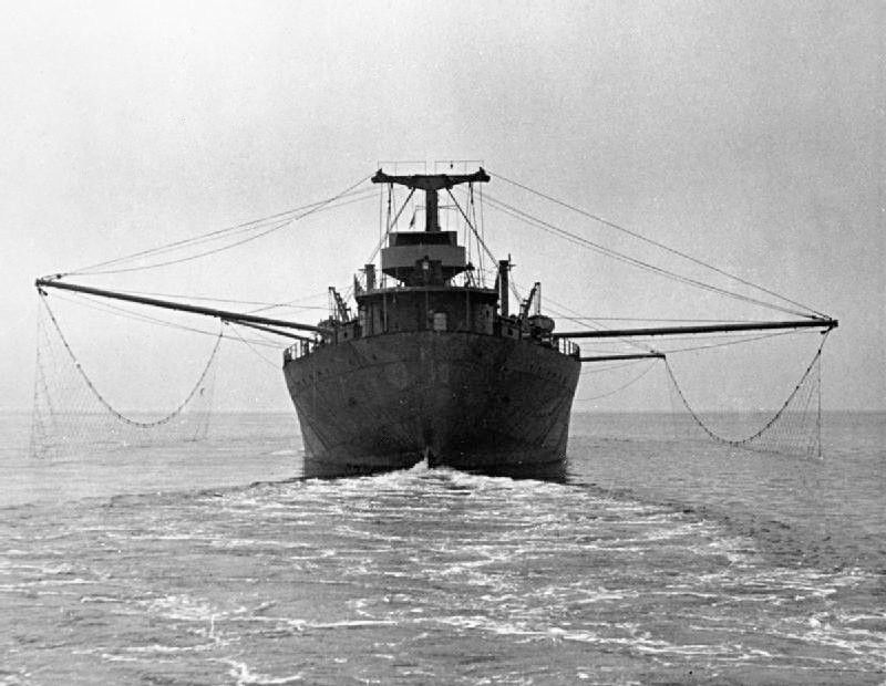 The Royal Navy during the Second World War Ship fitted with AND (Admiralty Net Defence). This was fitted to merchantmen on certain occasions to counter enemy torpedo attacks. Though the method was effective in catching the torpedo, the speed of the ship was slowed down to such an extent that the device was seldom used in convoy.